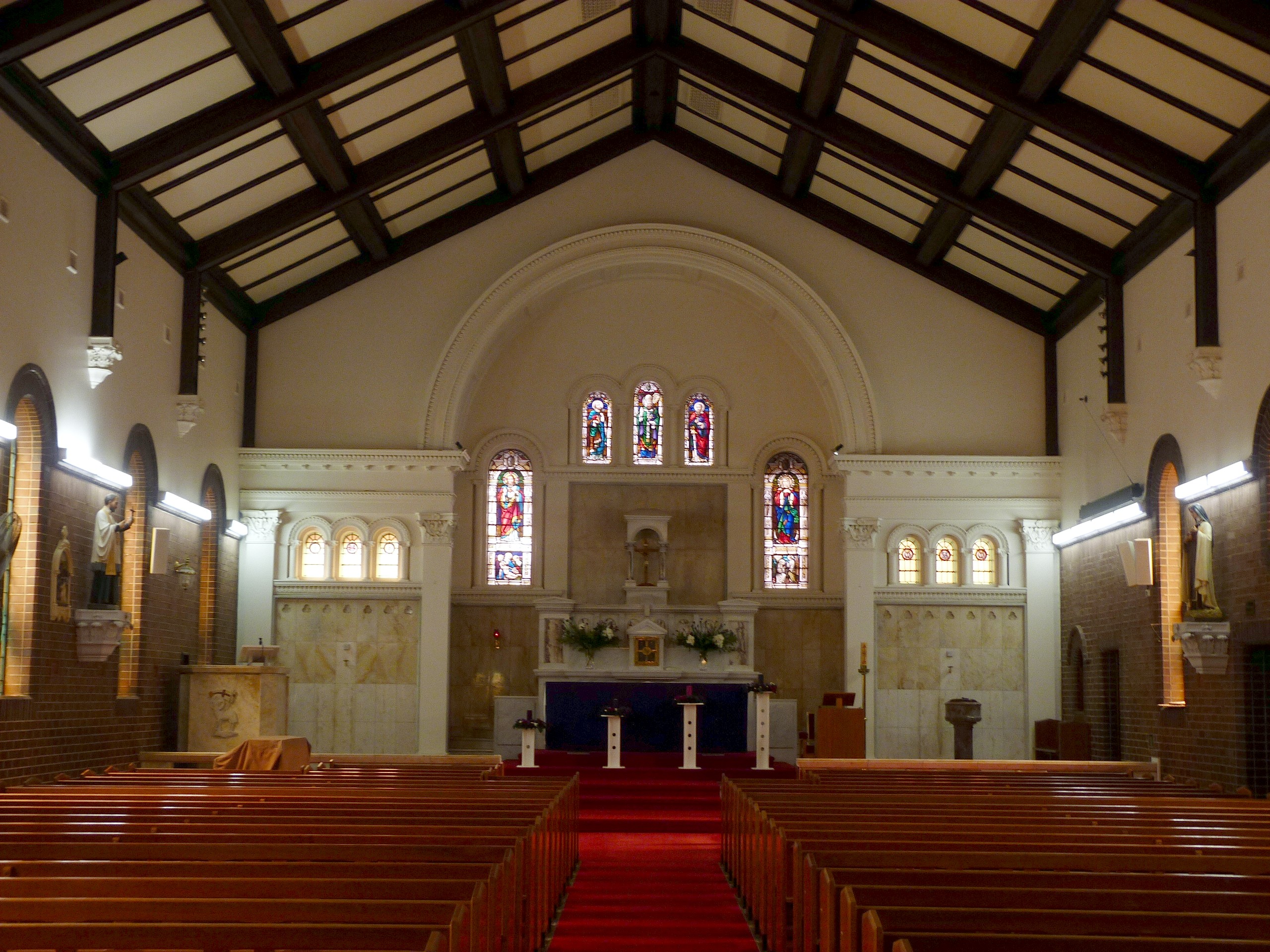 st patricks, bondi, sydney